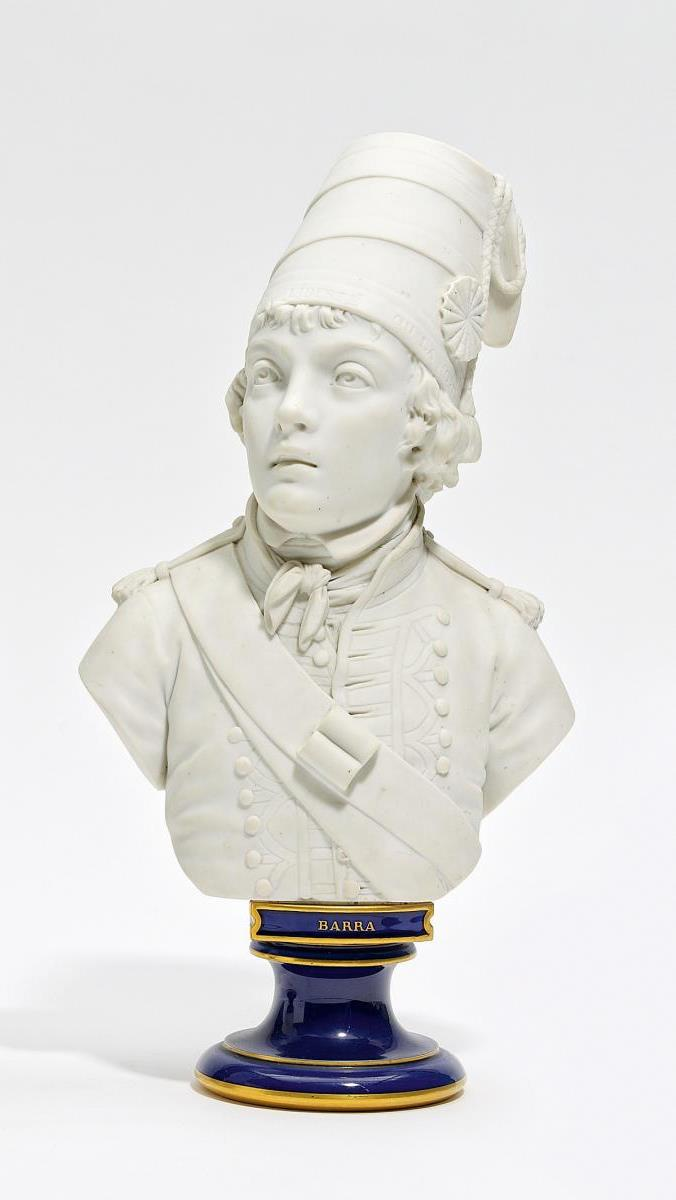 Joseph Bara or Barra by the Manufacture royale de porcelaine de Sèvres, France